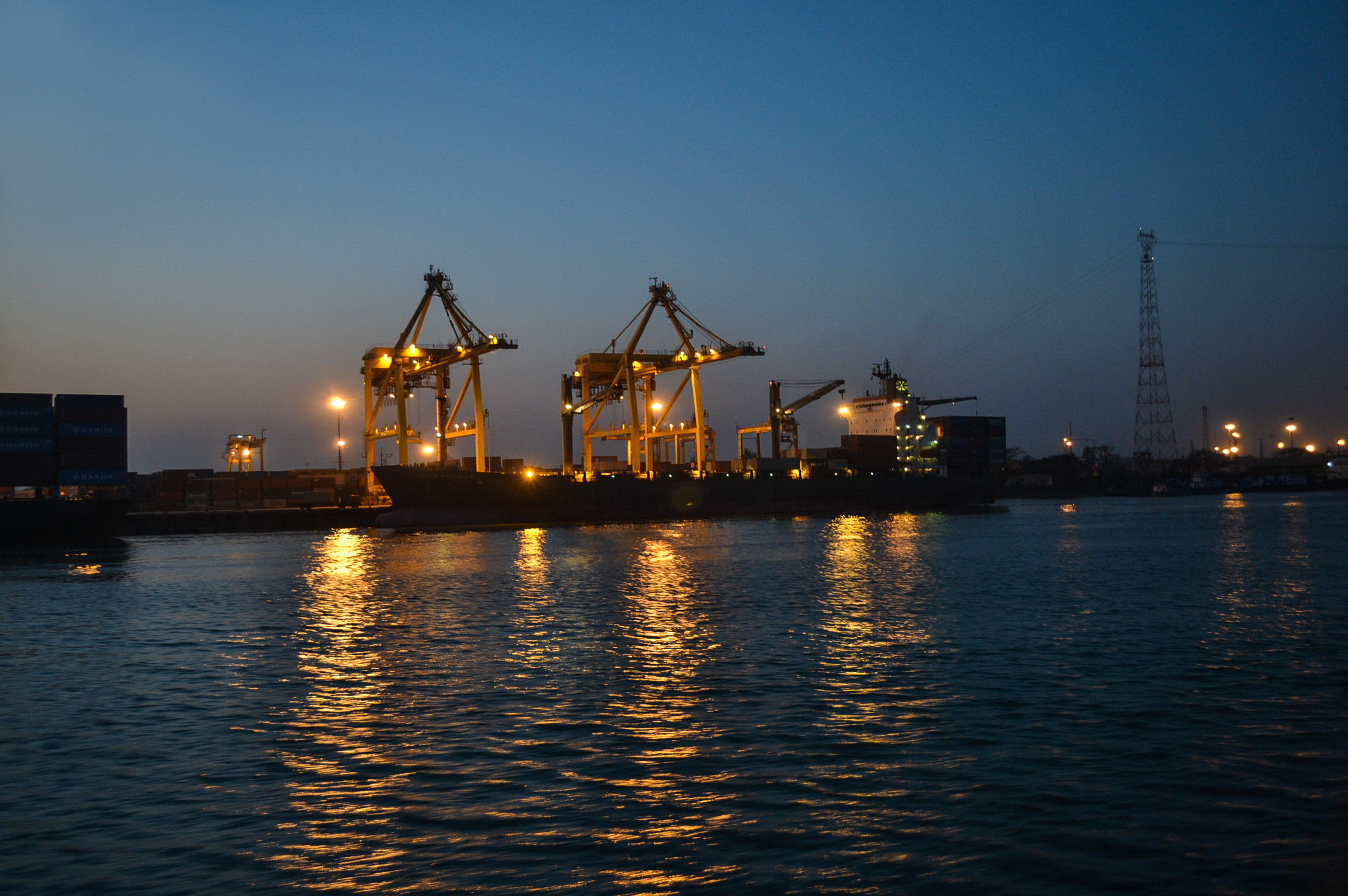 At Night view (east-west) of the Port of Chittagong taken from beside the Karnaphuli River. Straddle carriers from the Port of Chittagong also visible with yellow light.